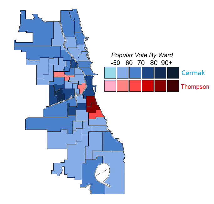 Results of the 1931 Chicago mayoral election by ward. Data courtesy of the Board of Elections Commissioners.